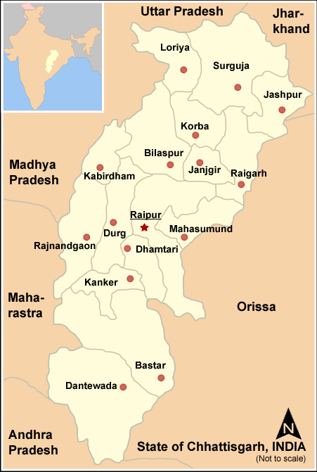 Chhattisgarh State (India) with district boundries and city marks - Self Made - User:Miljoshi - Jan 2006 Note: co-ordinates are estimated, and may not be exactly accurate.